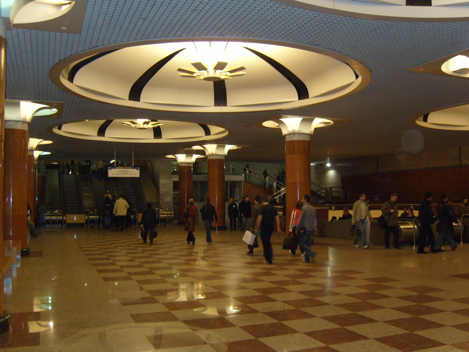 Hall of Moscow subway station "Park Pobedy"